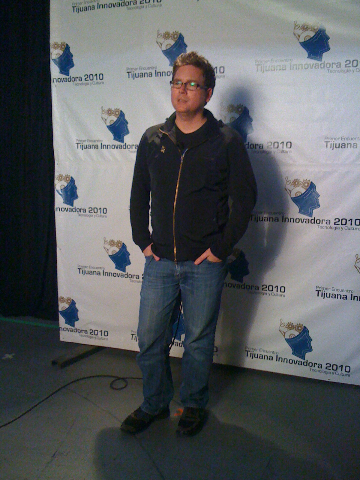 Biz Stone during his participation at Tijuana Innovadora